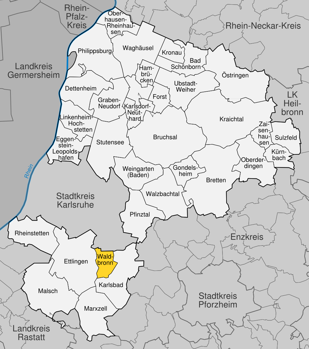 position of Waldbronn within distict of Karlsruhe, Baden-Württemberg, Germany